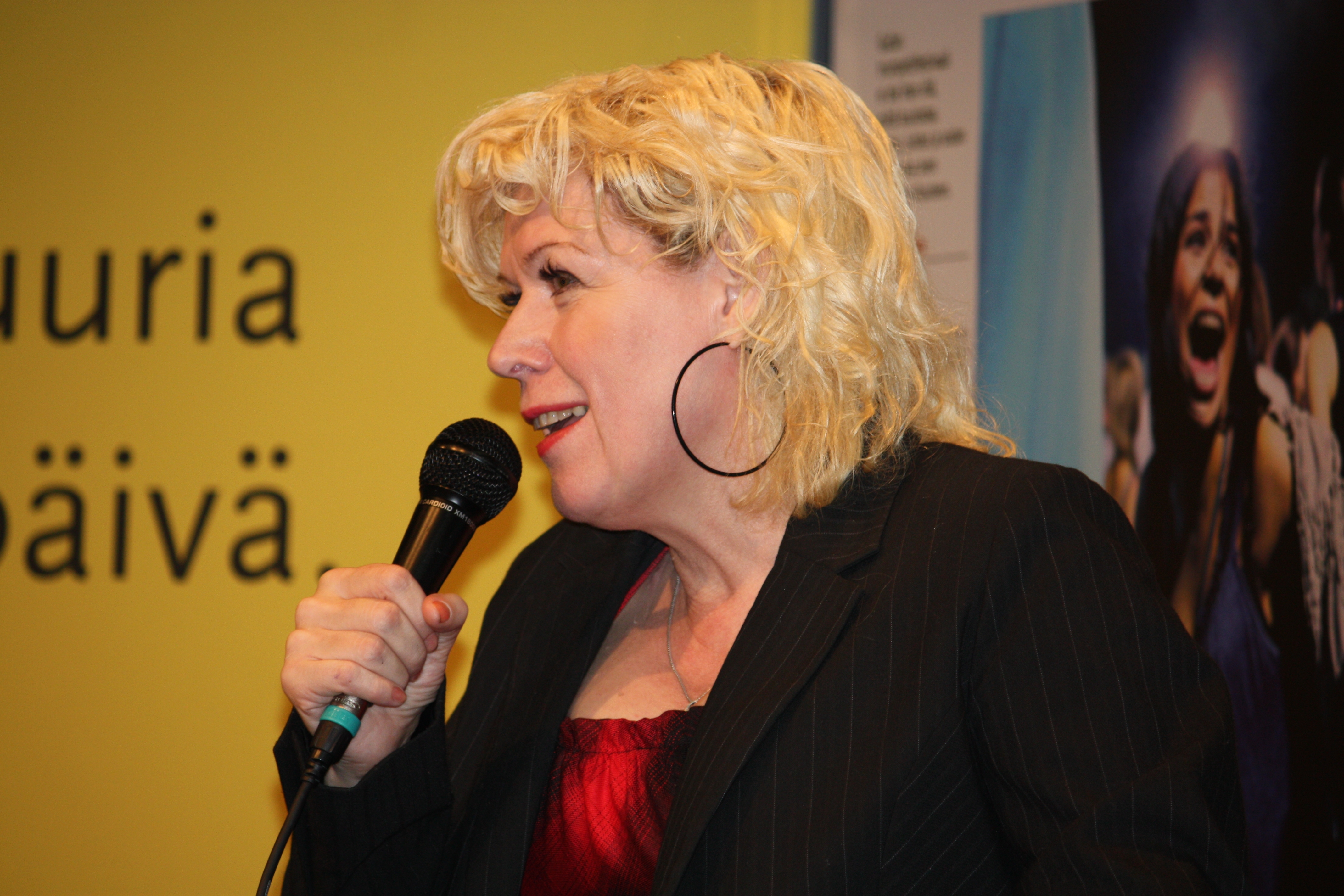 Finnish writer Leena Lander at the Helsinki Book Fair 2010.